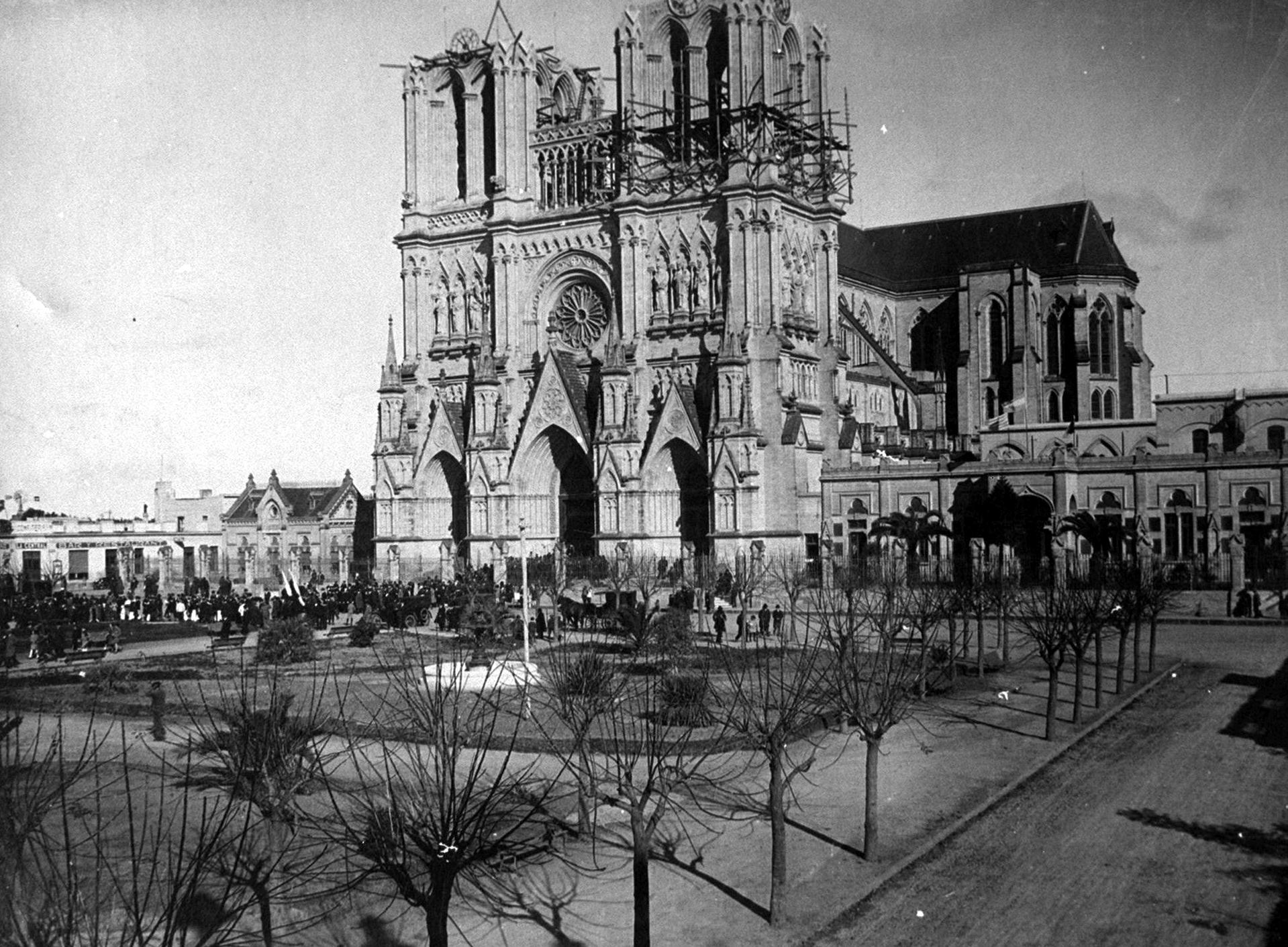 The Nuestra Señora de Luján Basílica (still not finished) during the traditional "Tedeum", a ceremony held to commemorate the May Revolution in Argentina.